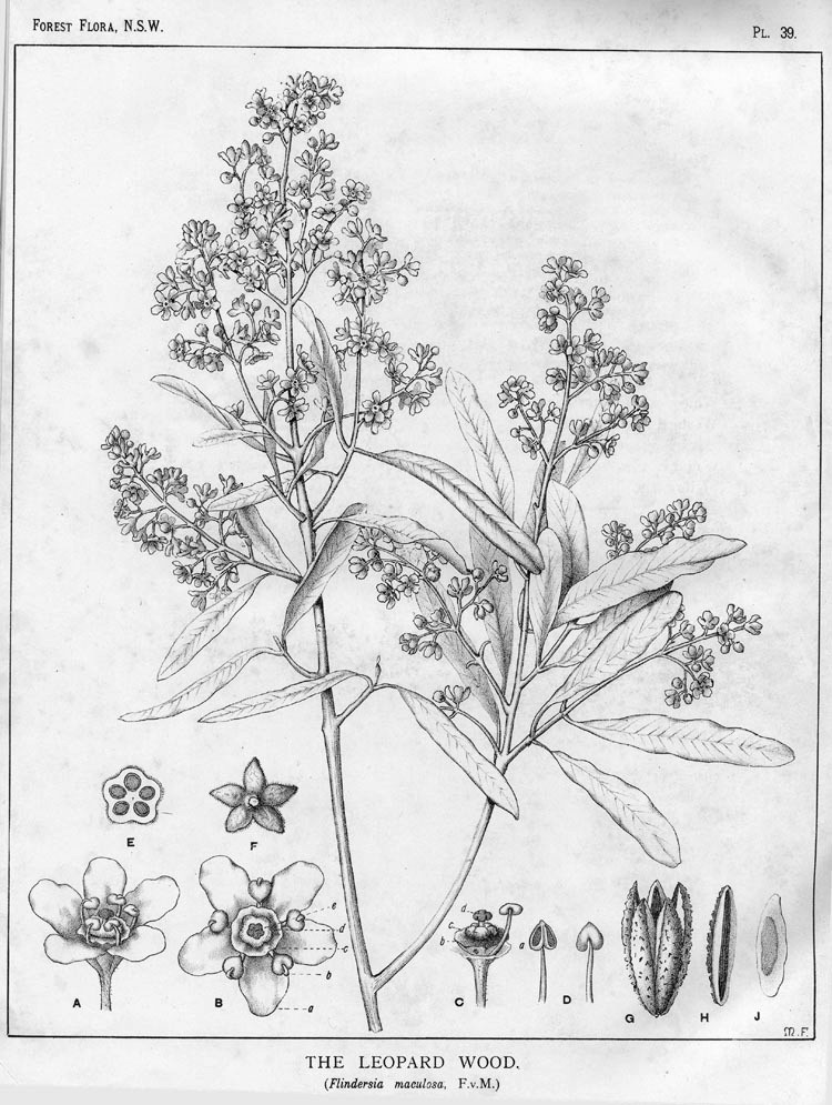 Leopardwood, Flindersia maculosa (Lindl.) F. Muell., Plate 39 from Forest Flora of New South Wales by Joseph Henry Maiden (1859–1925)